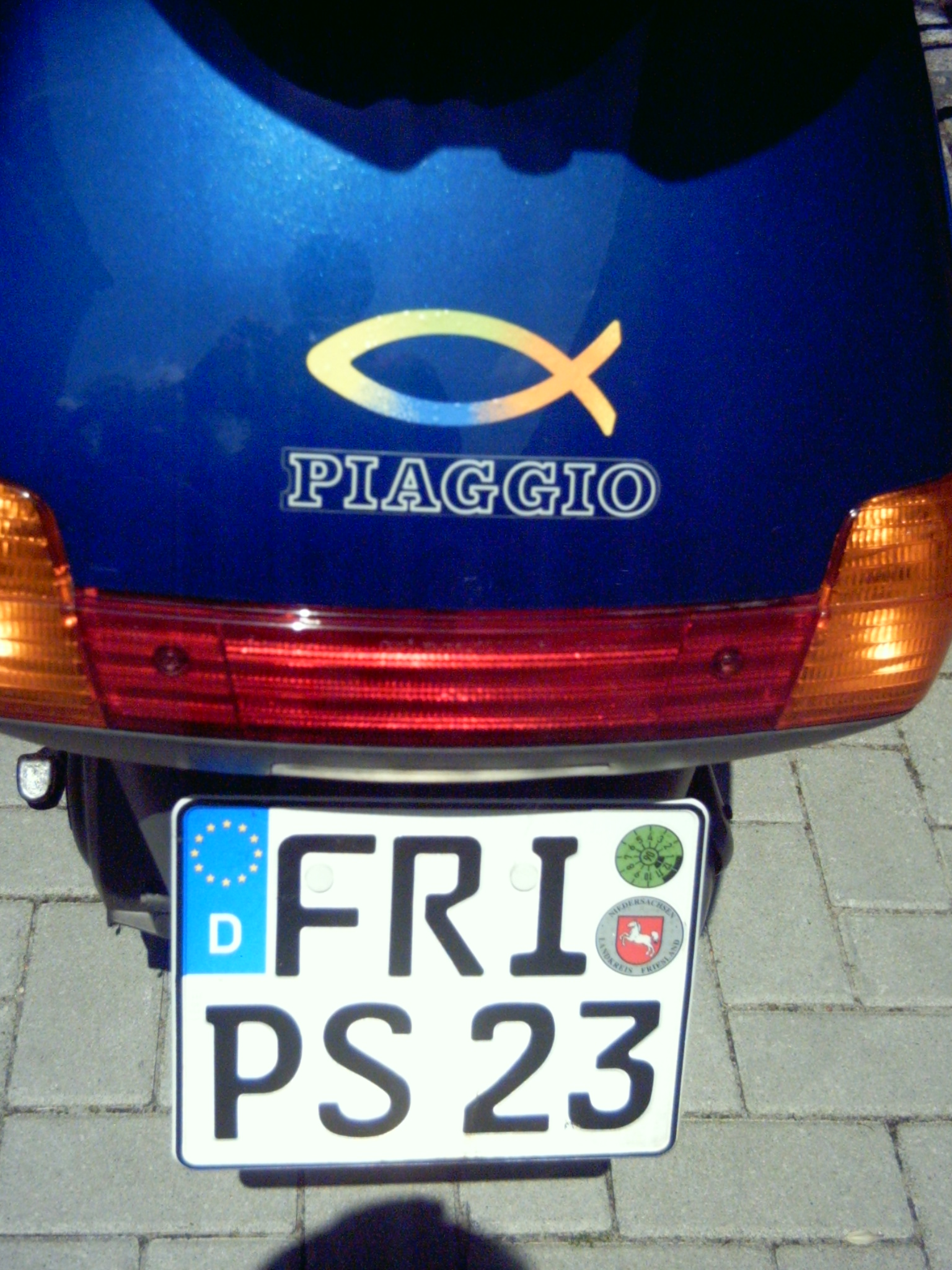 This is a partial rear end view of a scooter, Piaggio's Hexagon. The photo was taken in Friesland in the northern part of Germany on January 25, 2005. It shows an example of how modern Christians proclaim their faith on highways. Ichthys Ichthys (Christian fish symbol), originated as a “secret symbol” among the prosecuted Christians in ancient Rome, is now a popular sticker for vehicles. A license tag is another way of showing a person's faith. In this particular photo, PS23 stands for Psalm 23 in the Old testament of the Christian Bible, also known as “the Shepherd Psalm.”